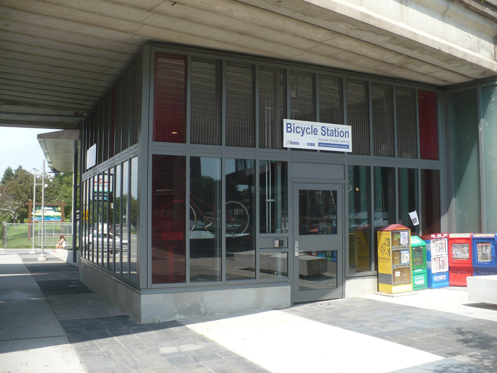 The Bicycle Station at Victoria Park subway station in Toronto